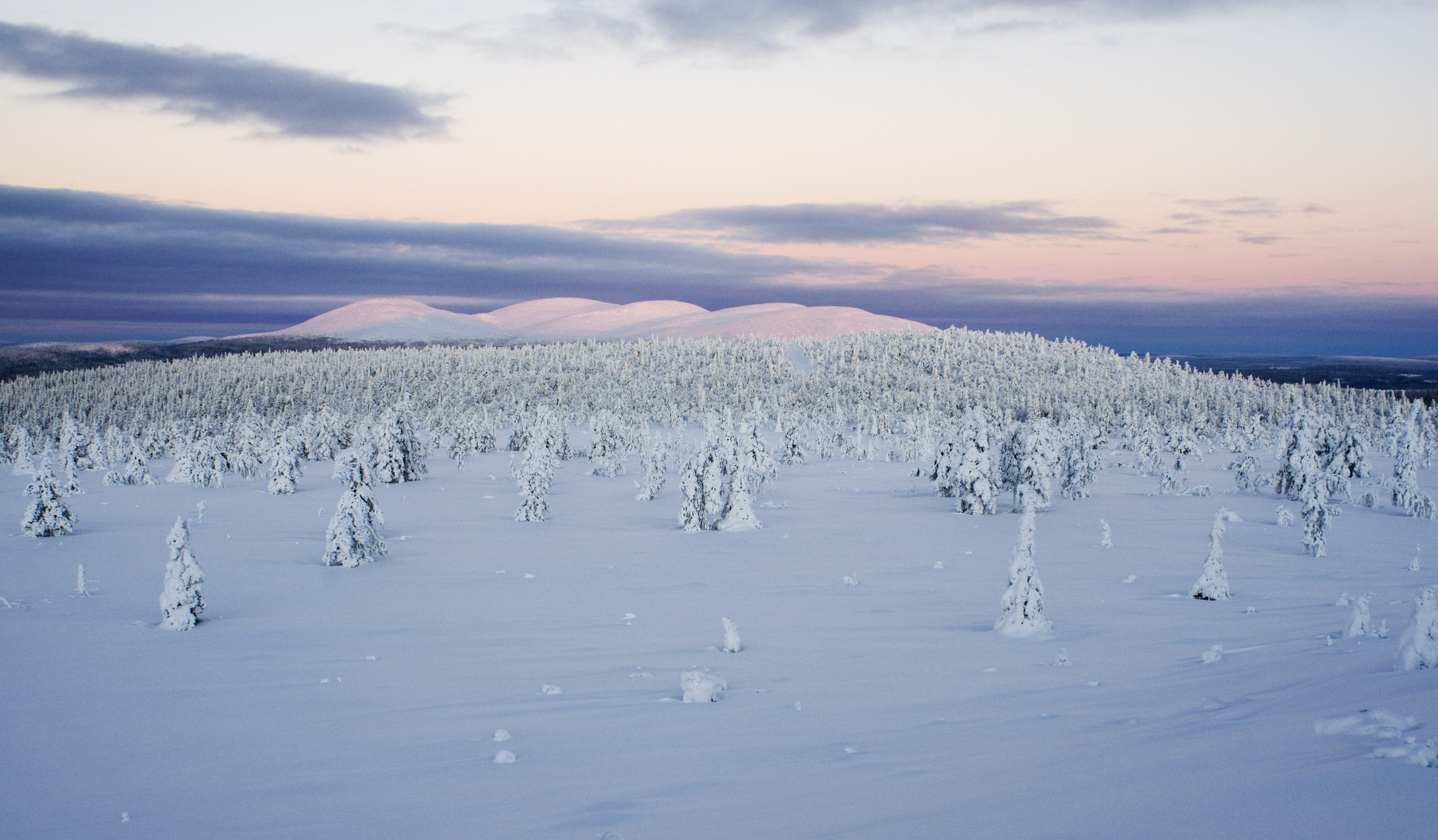 Ridge of Pallastunturi hills (view from Sammaltunturi) in Pallas-Yllästunturin National Park, Lapland, Finland.